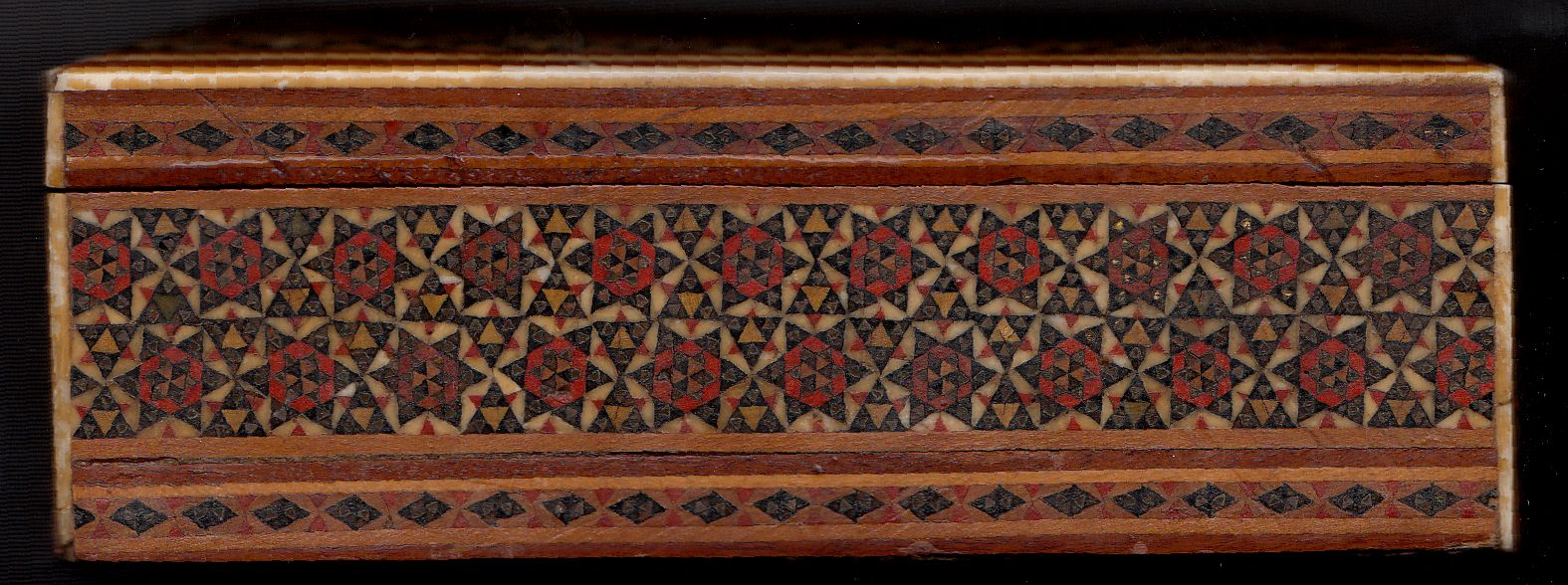 Inlay (ivory, red sandalwood, copper) on side of eastern wooden casket. Size 125x42 mm. Supposedly the end of the 19th century. This artwork is old enough so that it is in the public domain. (Image scanned)